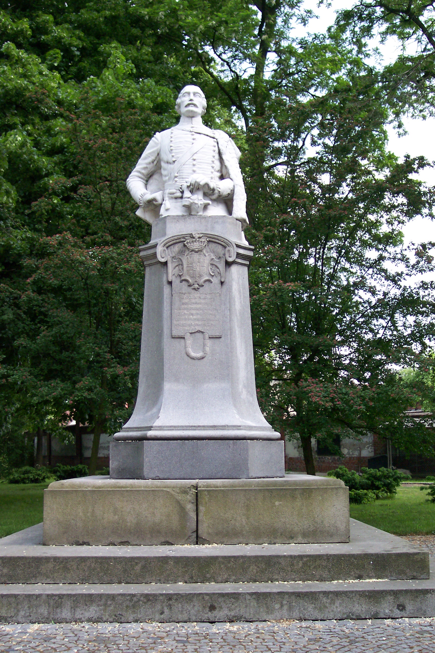 Palace in Pławniowice/Poland